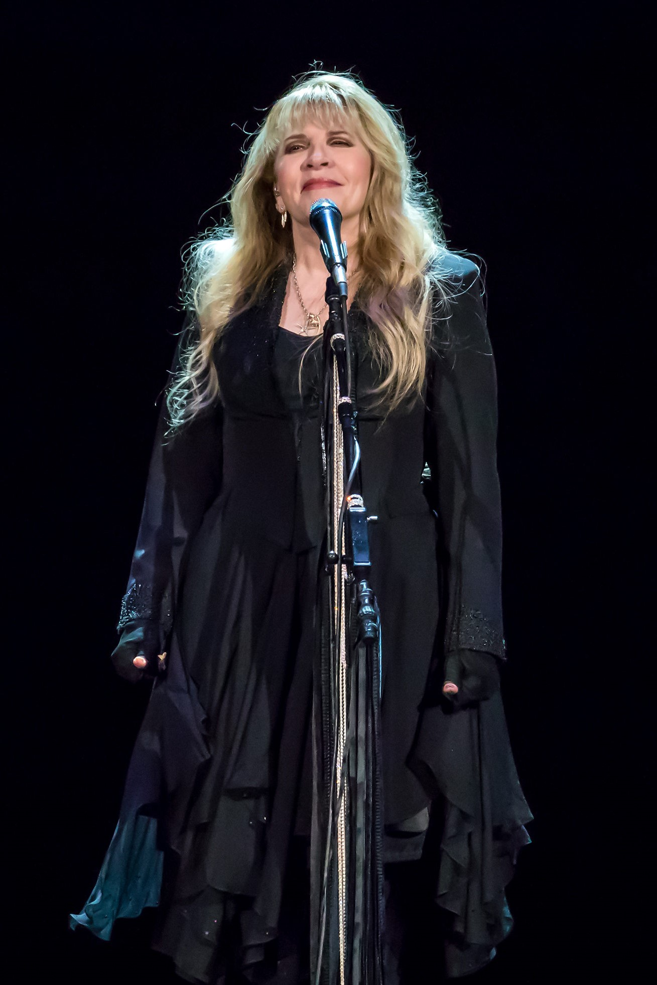 Stevie Nicks performing at the Frank Erwin Center in Austin, Texas on her 24 Karat Gold Tour.